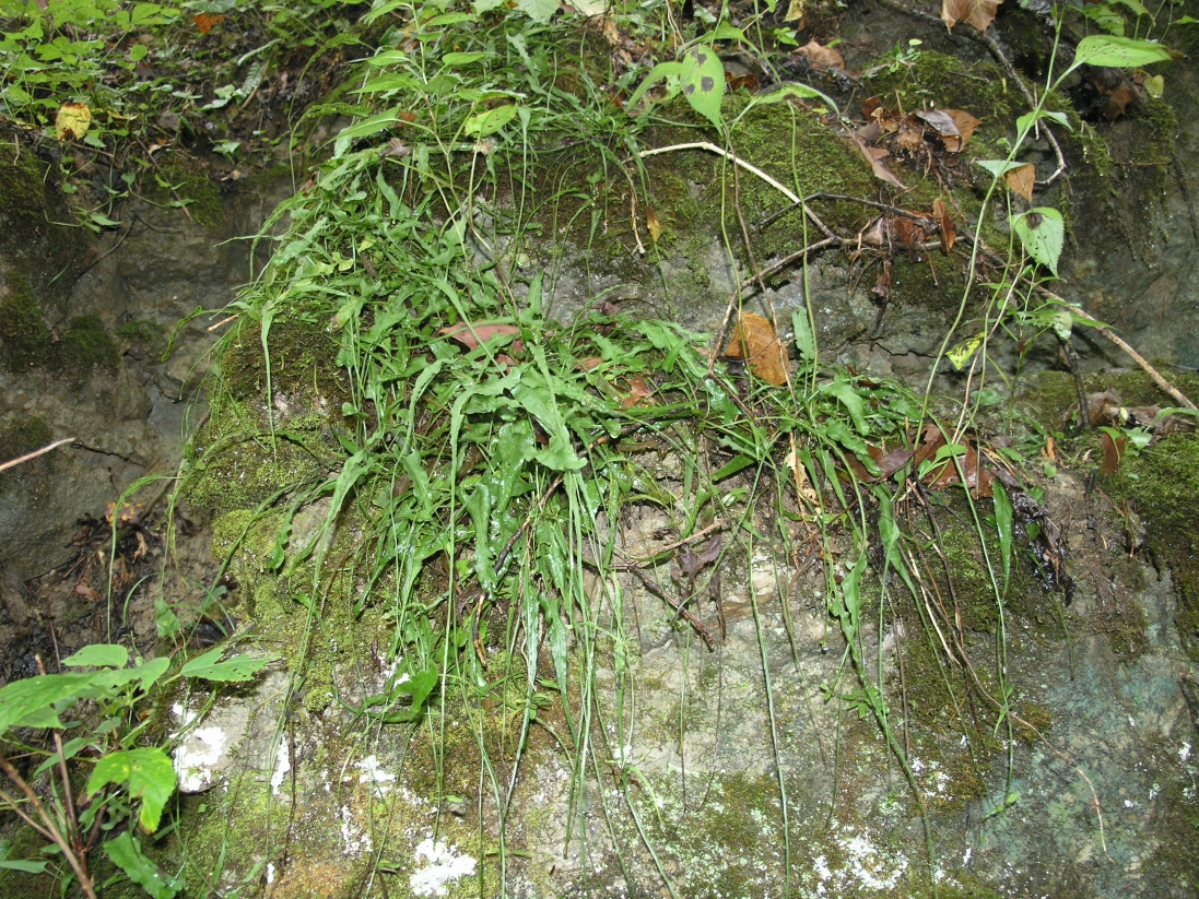 Asplenium rhizophyllum on rock, Red River Gorge, Daniel Boone National Forest, Kentucky.